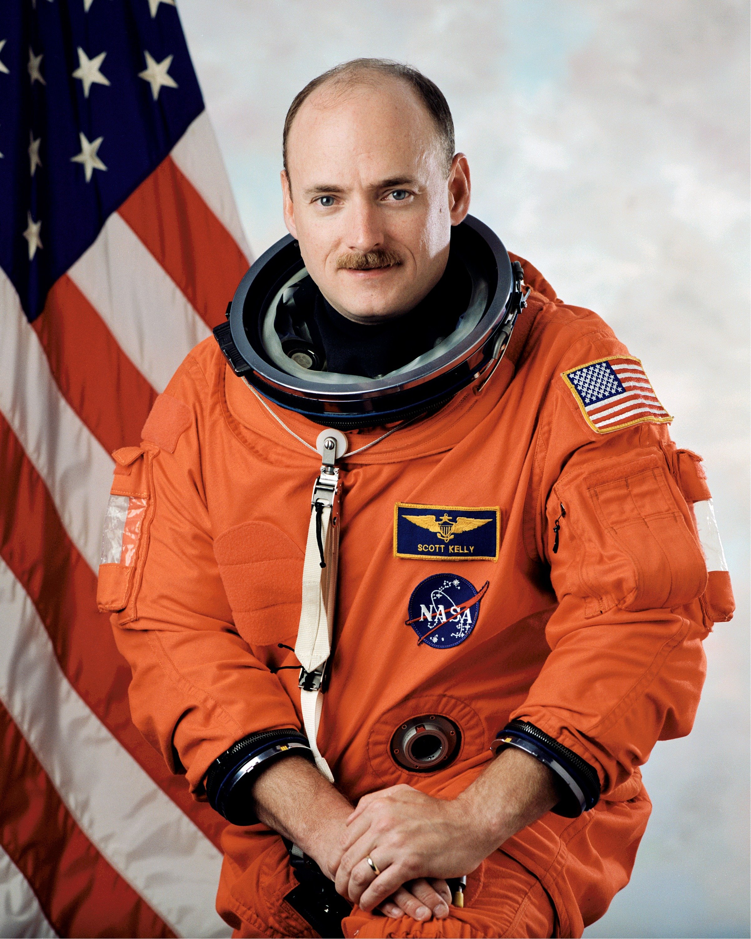 S99-05705 - Astronaut Scott J. Kelly, commander